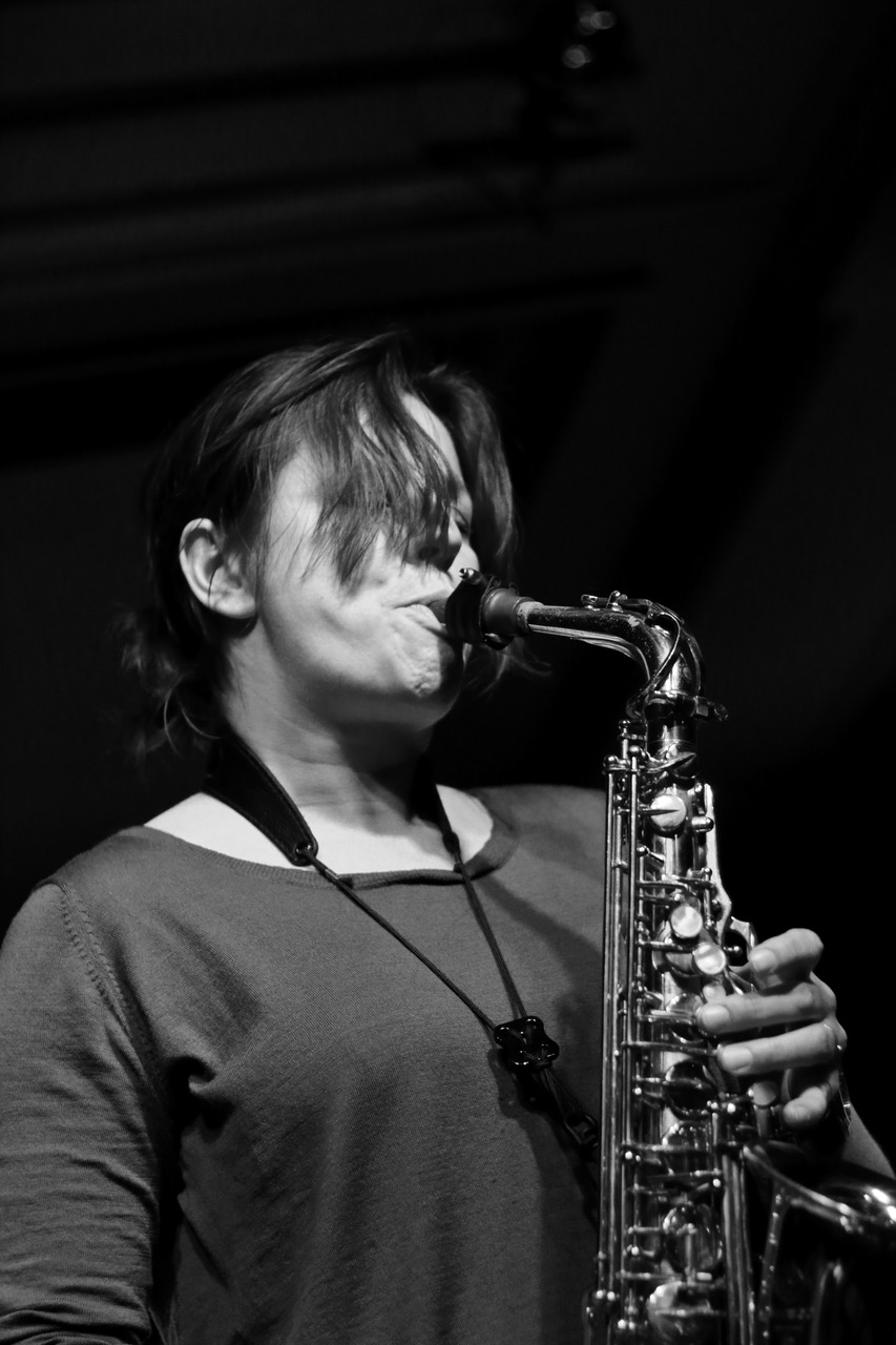 Maria Faust playing live